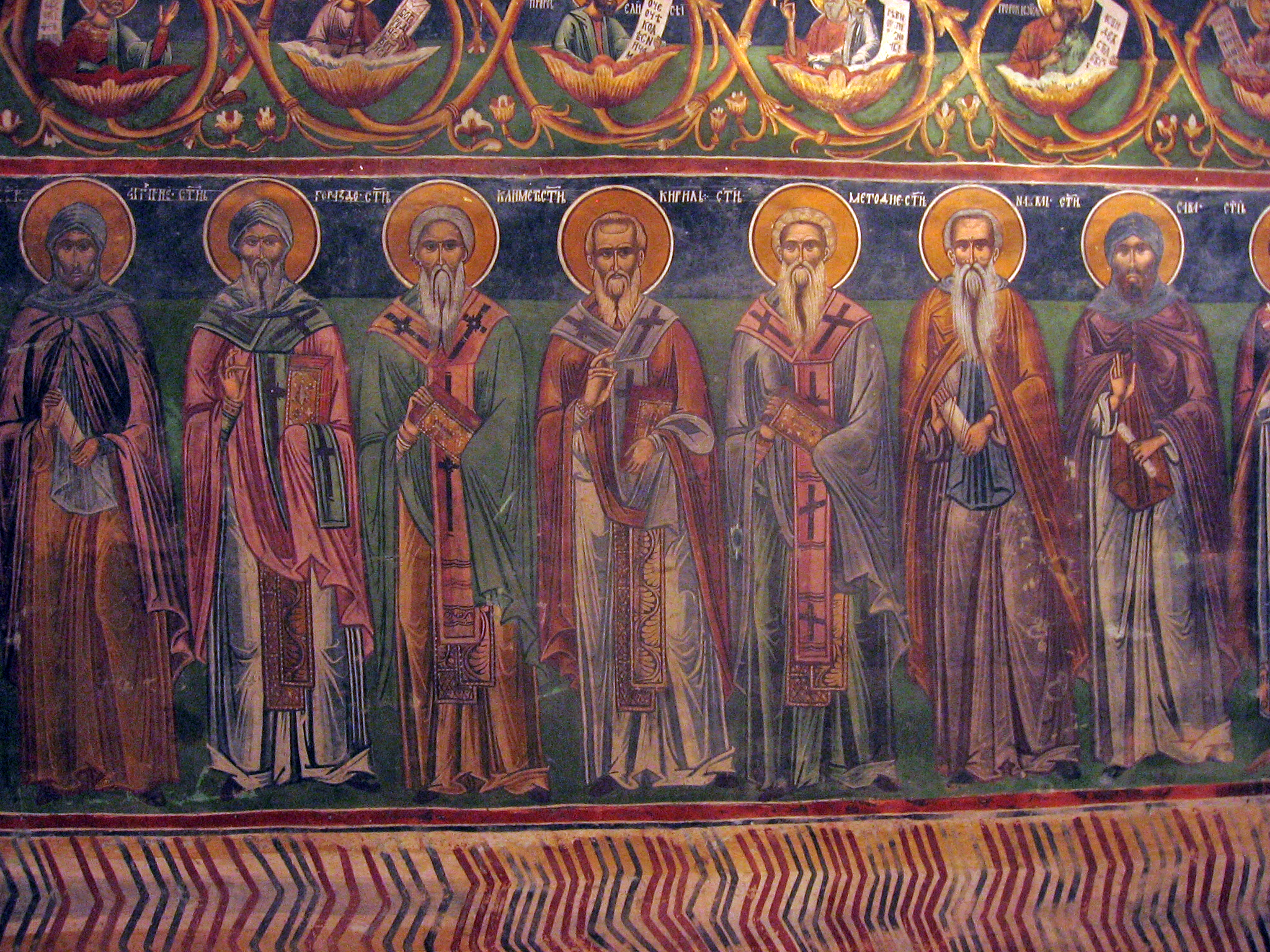 Slivnica monastery above Prespa lake in Macedonia